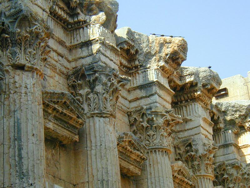 Details inside Bacchus temple photographed by BlingBling10.